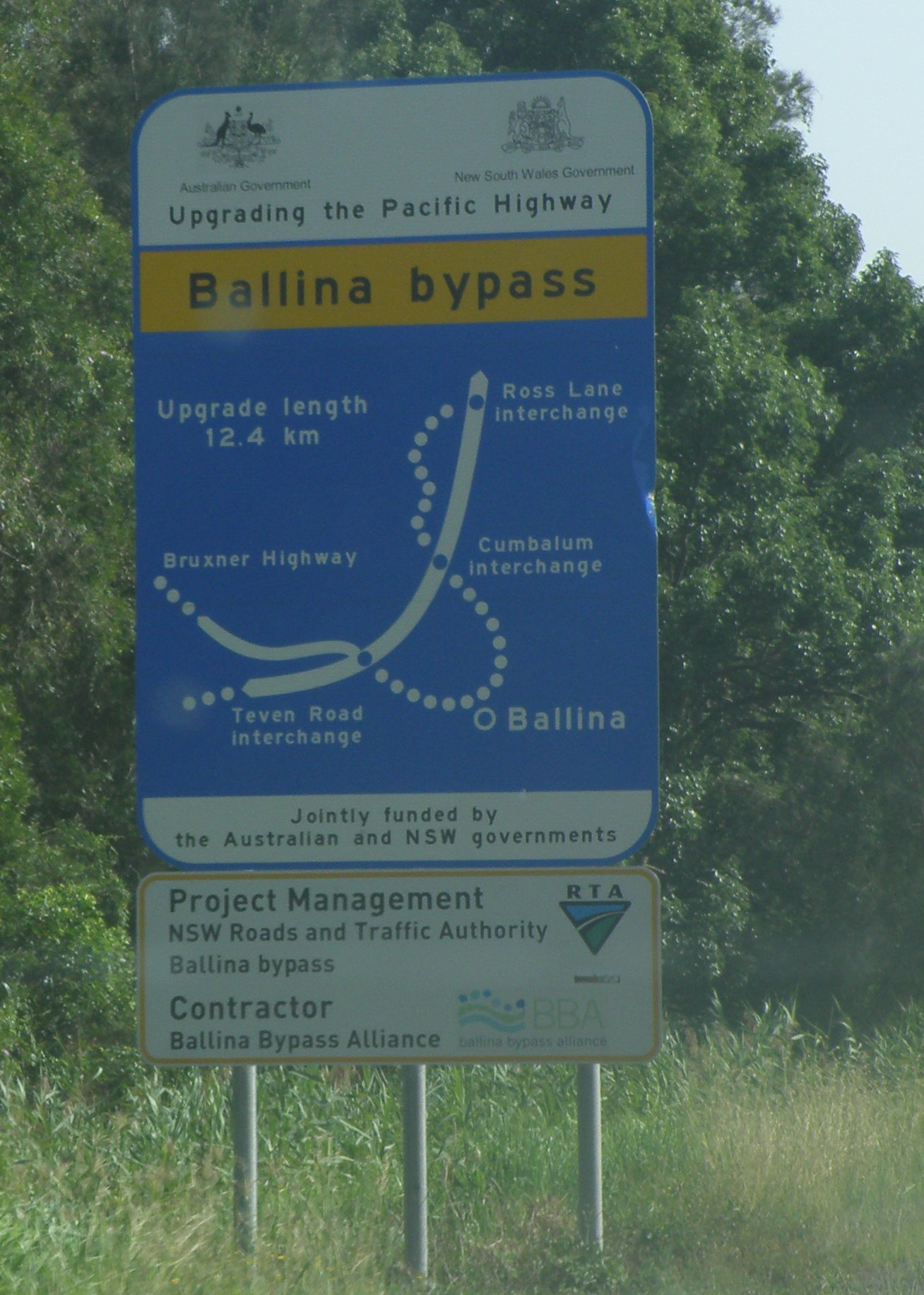 Sign outlining the Ballina Bypass project